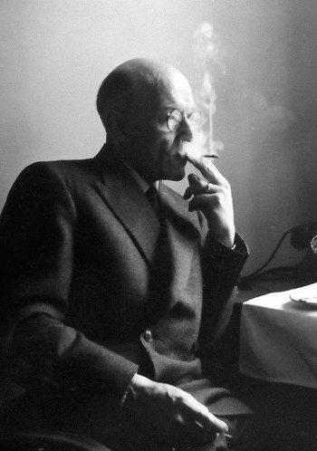 Gunnar Grönqvist (Valotus Oy) in the 1950s by Pekka V. Virtanen